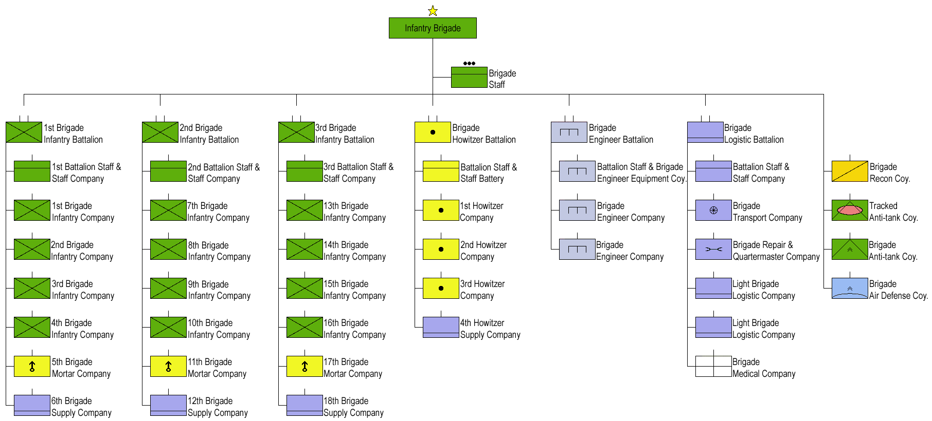 Structure of the Swedish Infantry Brigade Type 77